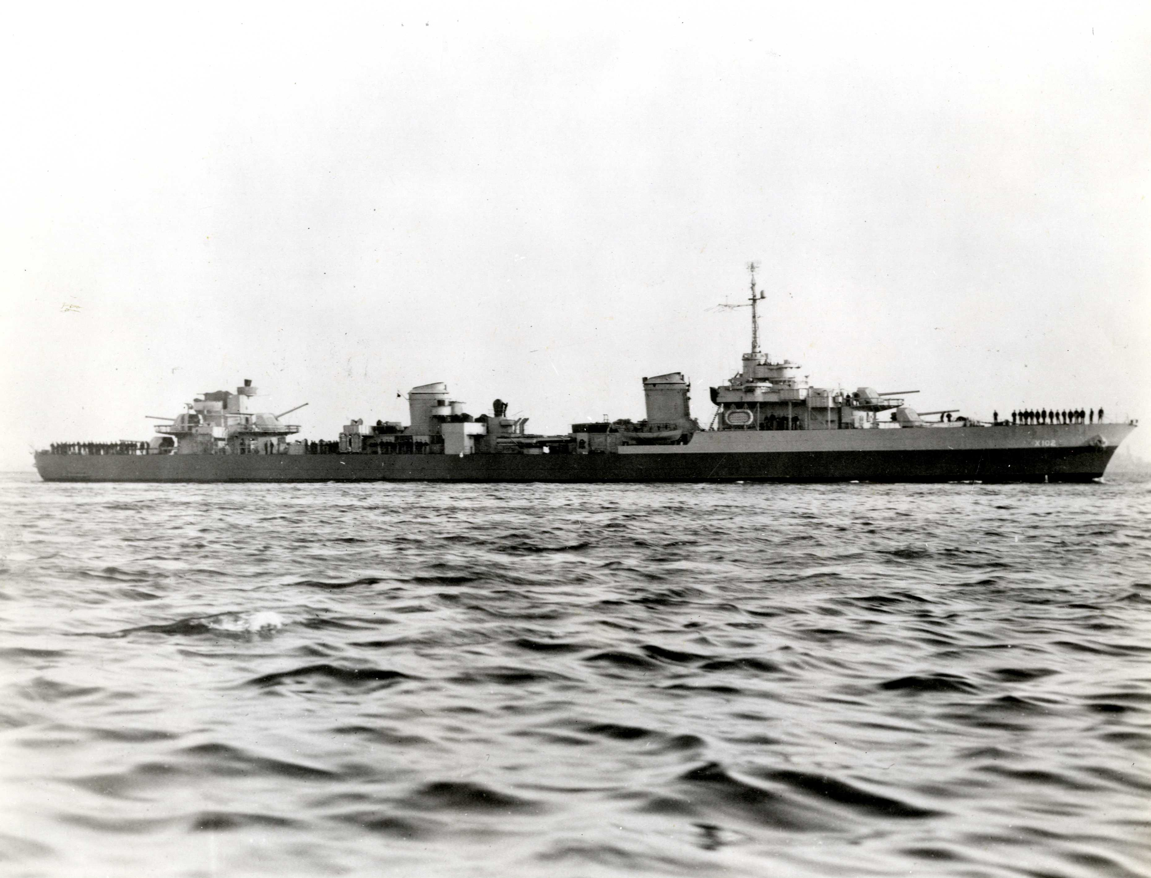 The Free French destroyer Le Triomphant after a refit at the Boston Navy Yard, Massachusetts (USA), circa in 1944. Hull number X102 suggests this is actually destroyer Le Malin.